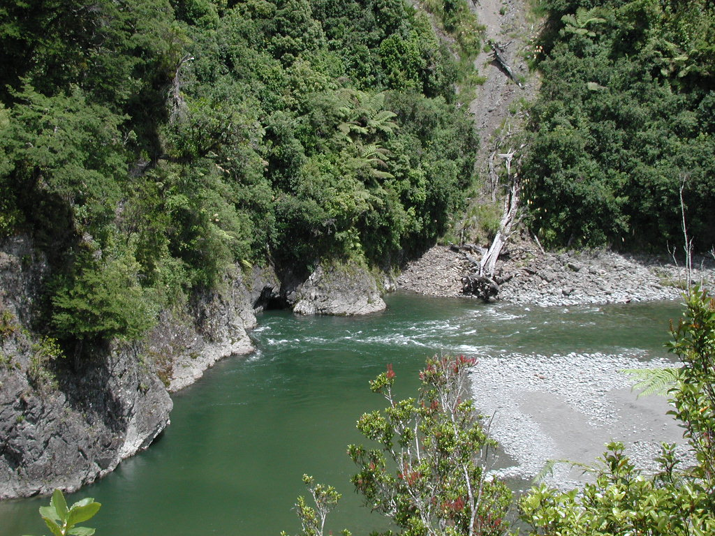 Waiohine River flowing through Waiohine Gorge.